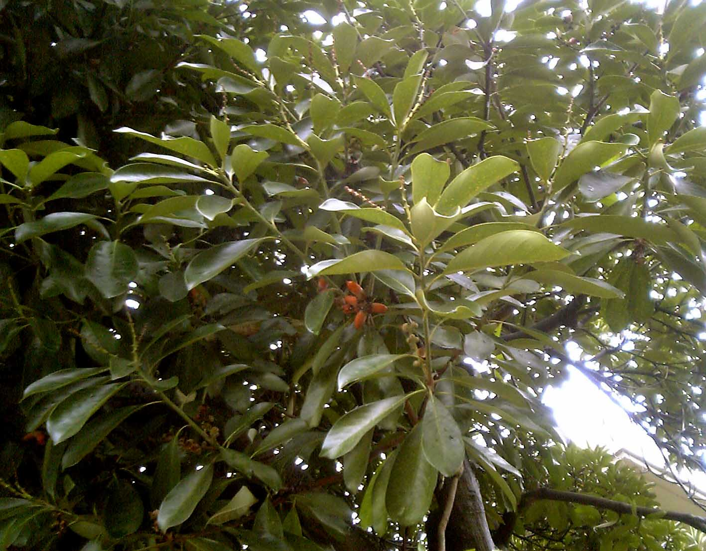 Scientific name Lithocarpus edulis Nakai, leaves and acorns in autumn.